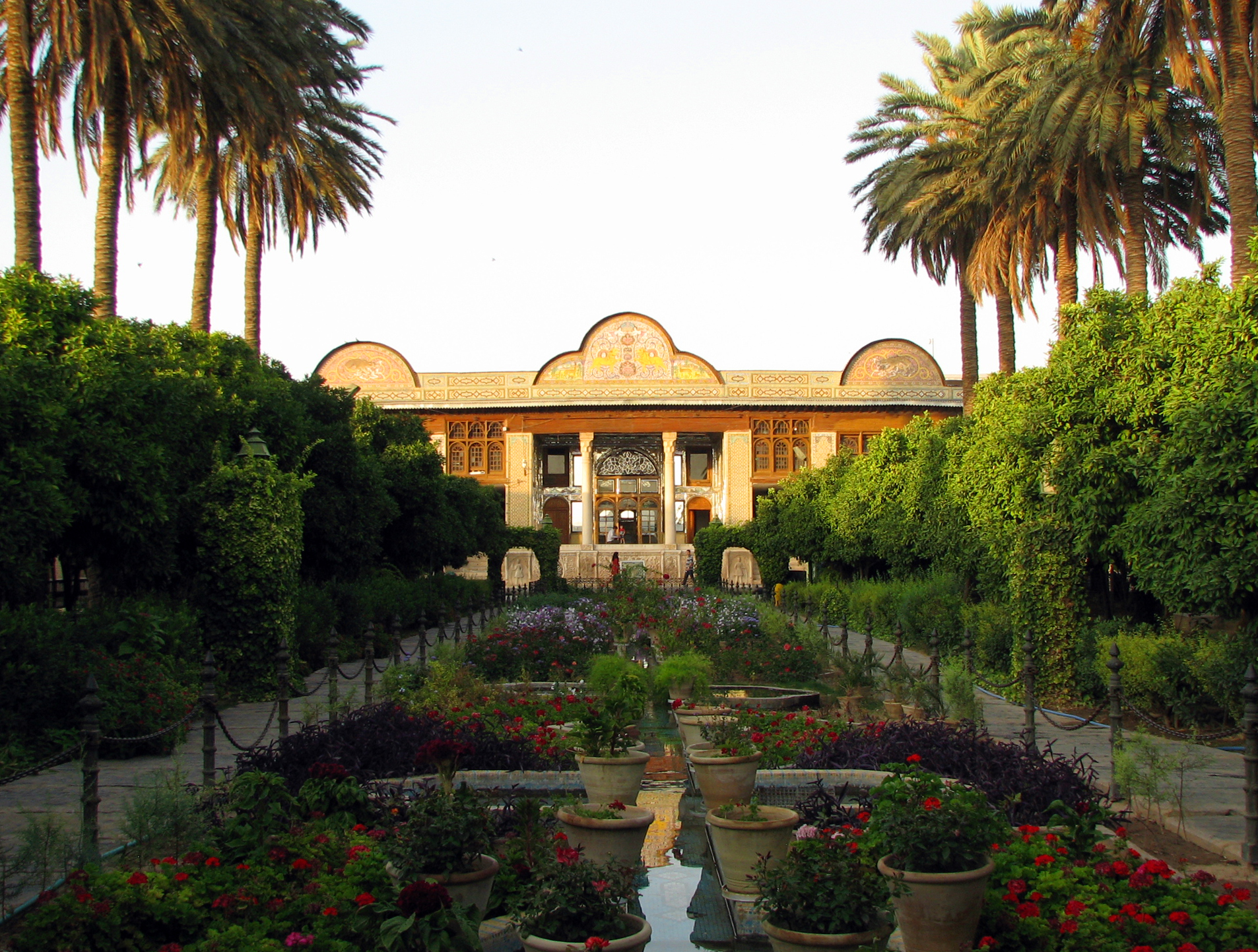 Ghavam—Qavam Garden (house) and Eram Garden fountain, Shiraz, Iran. Mansion of Narenjestan Ghavam, once Asia institute, now in the Shiraz Botanical Garden of Shiraz University.